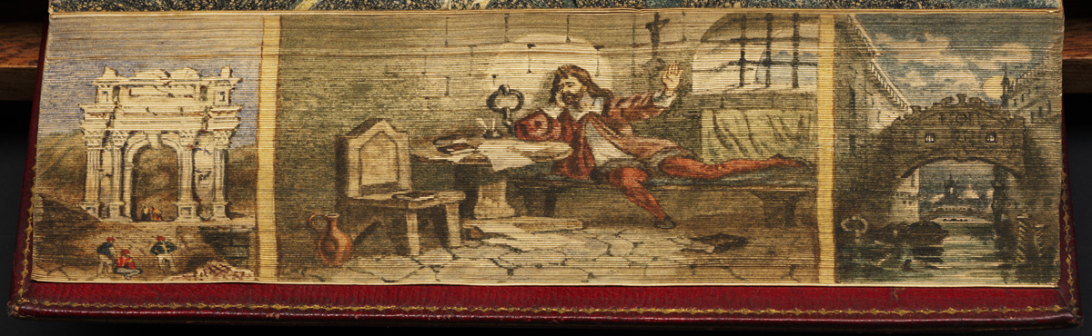 Accession No: 07_04_000168A Call No: PQ4642.E21H6 1797x Book Title: Jerusalem delivered (Torquato Tasso), v.1 Painting Location: Fore-edge/fanned to the right Painting Title: [Trajans Arch, Ancona; Tasso in Prison; the Bridge of Sighs.] Subject: Triptychs Monuments & memorials People Interiors Bridges Catalog Card Transcription: Tasso, Torquato. Jerusalem Delivered: an Heroic Poem, translated from the Italian of Torquato Tasso, by John Hoole. London, 1797. 2 vols., full red straight-grain morocco, gilt edges, enclosed in full red morocco slip case. Beneath the gilt fore-edges of each volume are fine detailed painting. The one on volume I is divided into three parts depicting Trojans Arch, Ancona, Tasso in Prison and the Bridge of Sighs. Volume II is divided into two parts: Genoa and Venice. I. Hoole, John, tr. II. Title.